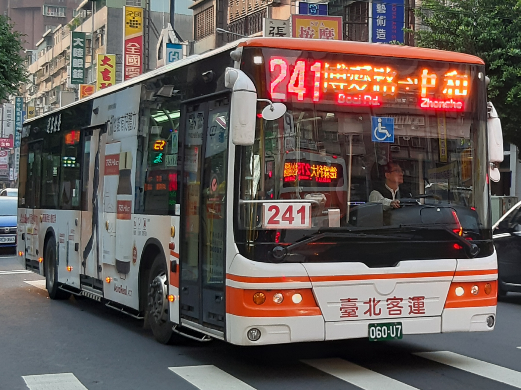 2015(2015) GOLDEN DRAGONXML6125 060-U7